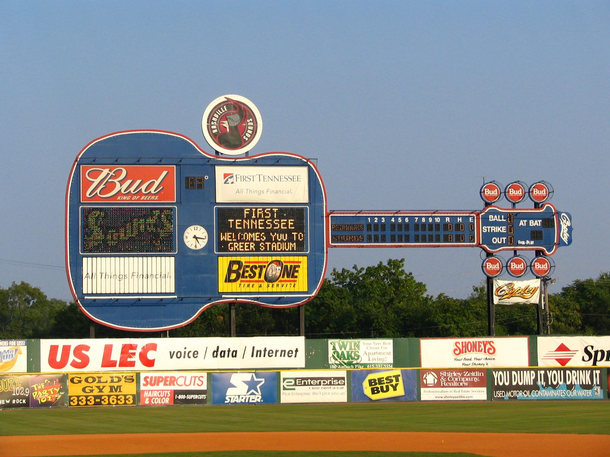 This is the guiter-shaped scoreboard in the outfield of Greer Stadium for the Nashville Sounds. This picture was taken during the playoffs before they won the PCL Championship (taken on September 10, 2005).